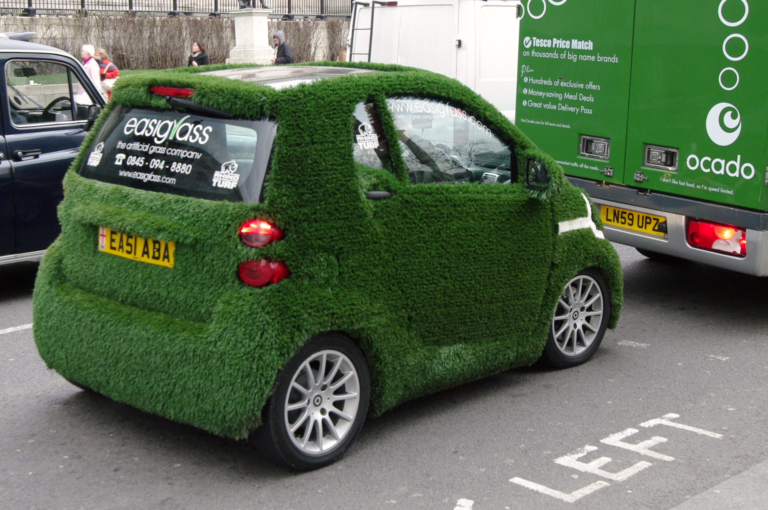 An "easibug". One of several modified Smart vehicles by Artificial Grass Company easygrass. Here somewhere on the A4 close to Trafalgar Square.